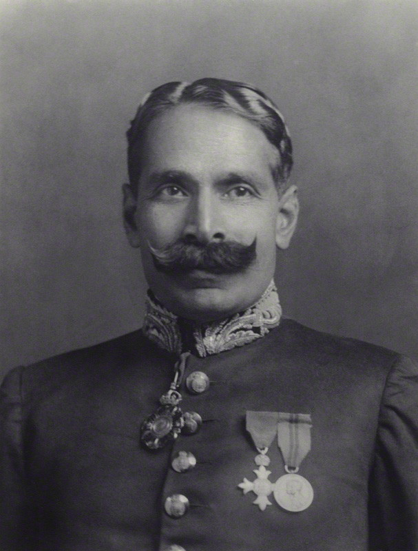 Muhammad Ahmad Said Khan, Nawab of Chhatari